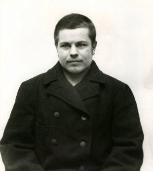 The young Swedish Communist Anton Nilson